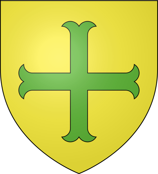 blason of des Barres family